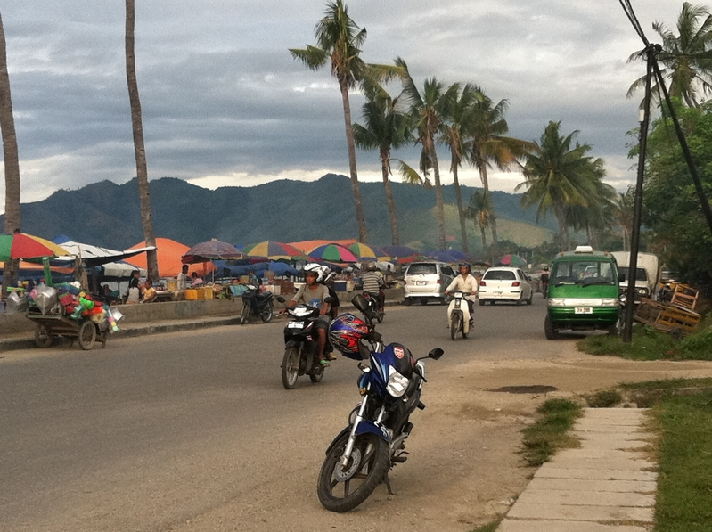 Avenida de Portugal at Beach Garden Hotel, Fatuhada, Dili.jpg